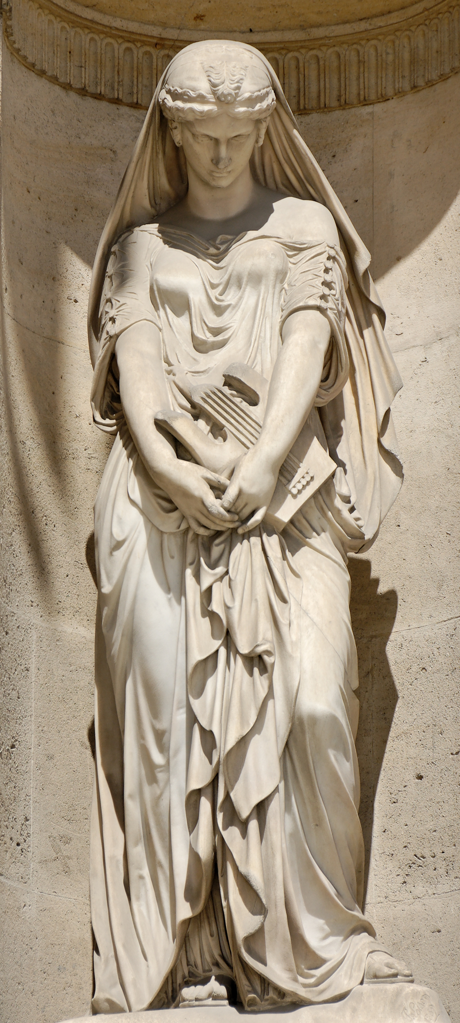 Sappho on the rock of Leucas (1859), by Pierre Loison (1816-1886). North façade of the Cour Carrée in the Louvre palace, Paris.